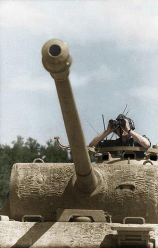 This is a retouched picture, which means that it has been digitally altered from its original version. Modifications: recolored by User:Ruffneck88. == Recolored Version of this image. Italien, Panzer V (Panther), Panzersoldat Photographer BayerArchive description Description provided by the archive when the original description is incomplete or wrong. You can help by reporting errors and typos at Commons:Bundesarchiv/Error reports. Italien, bei Florenz/Ravenna.- Panzer V "Panther", Panzersoldat (Kommandant) mit Kopfhörern im Turm, durch Fernglas schauend; PK Lfl 2Title Italien, Panzer V (Panther), Panzersoldat Depicted place Florenz / RavennaDate 1944date QS:P571,+1944-00-00T00:00:00Z/9Collection German Federal Archives Native nameDas BundesarchivLocationKoblenz (headquarters)Coordinates50° 20′ 32.71″ N, 7° 34′ 21.22″ E Established1946Web page control : Q685753 VIAF: 137346469 ISNI: 0000 0004 0555 2728 LCCN: n92025526 NLA: 36455393 Open Library: OL55798A WorldCat institution QS:P195,Q685753Current location Propagandakompanien der Wehrmacht - Heer und Luftwaffe (Bild 101 I)Accession number Bild 101I-478-2167-09 Source This image was provided to Wikimedia Commons by the German Federal Archive (Deutsches Bundesarchiv) as part of a cooperation project. The German Federal Archive guarantees an authentic representation only using the originals (negative and/or positive), resp. the digitalization of the originals as provided by the Digital Image Archive.